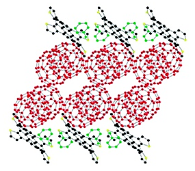 WaseemFig.8